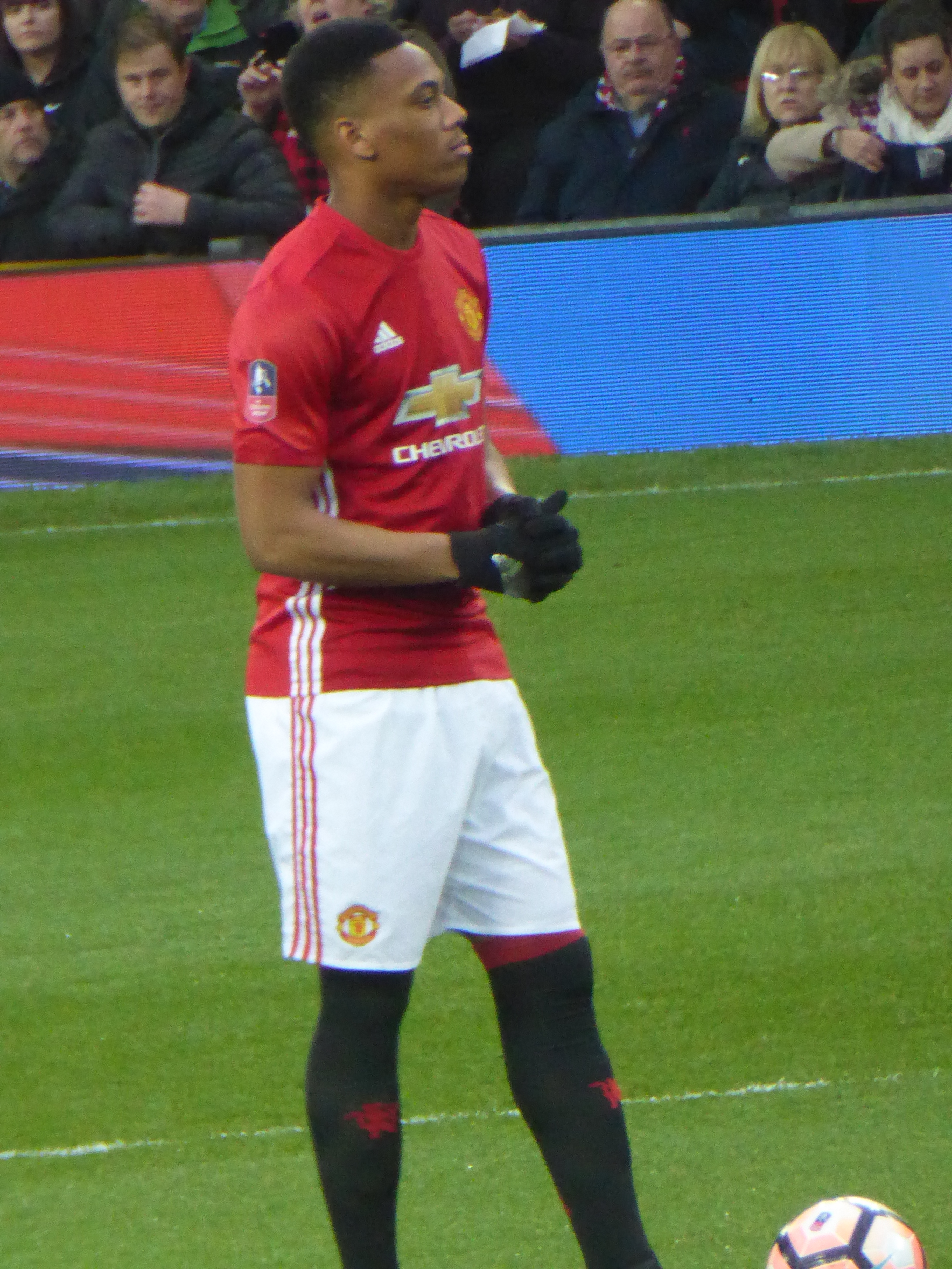 Manchester United v Wigan Athletic (4-0), FA Cup, Old Trafford, Manchester, Greater Manchester, England, 29 January 2017